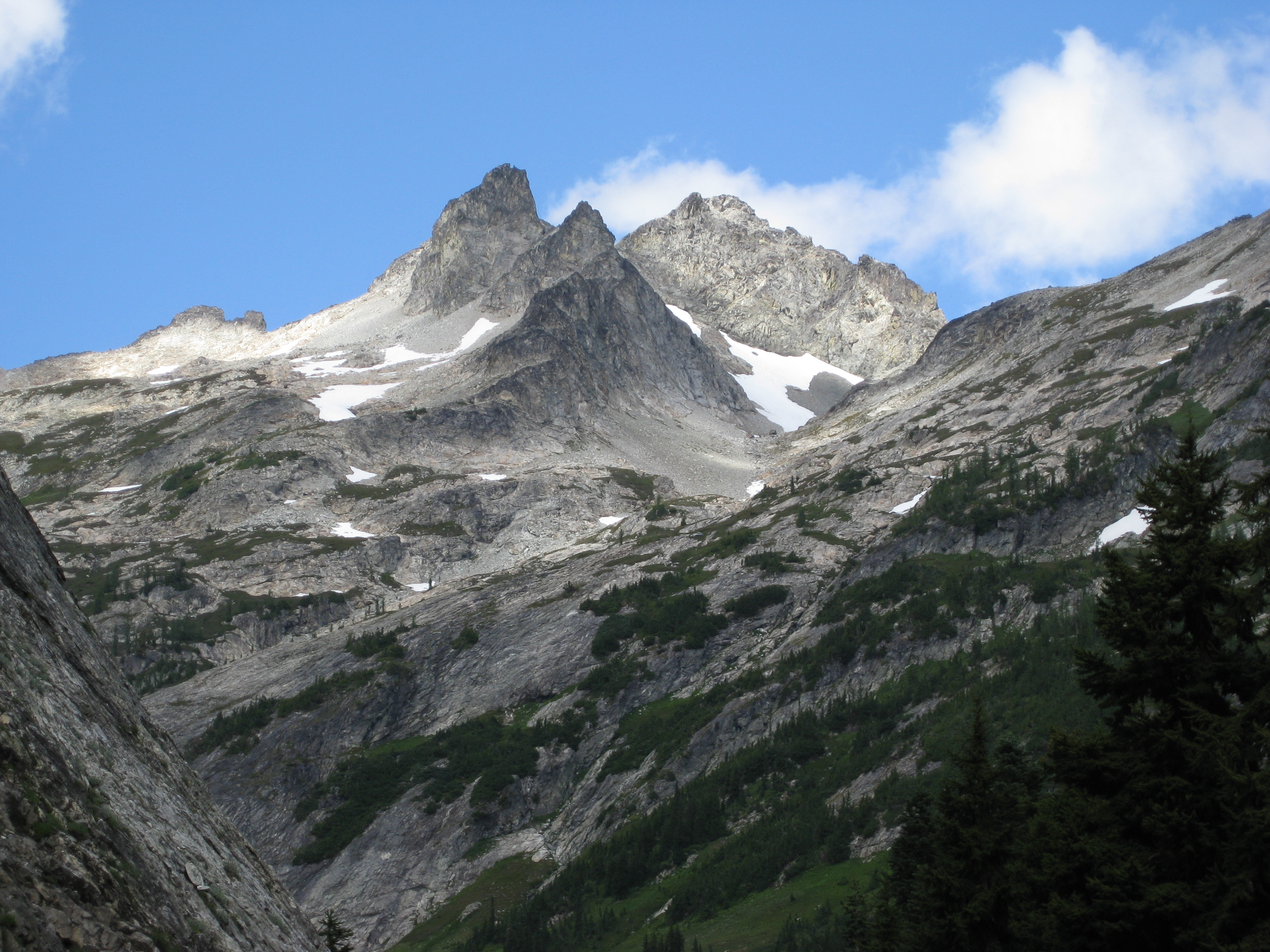 Dumbell Mountain from the southwest, summit right of center